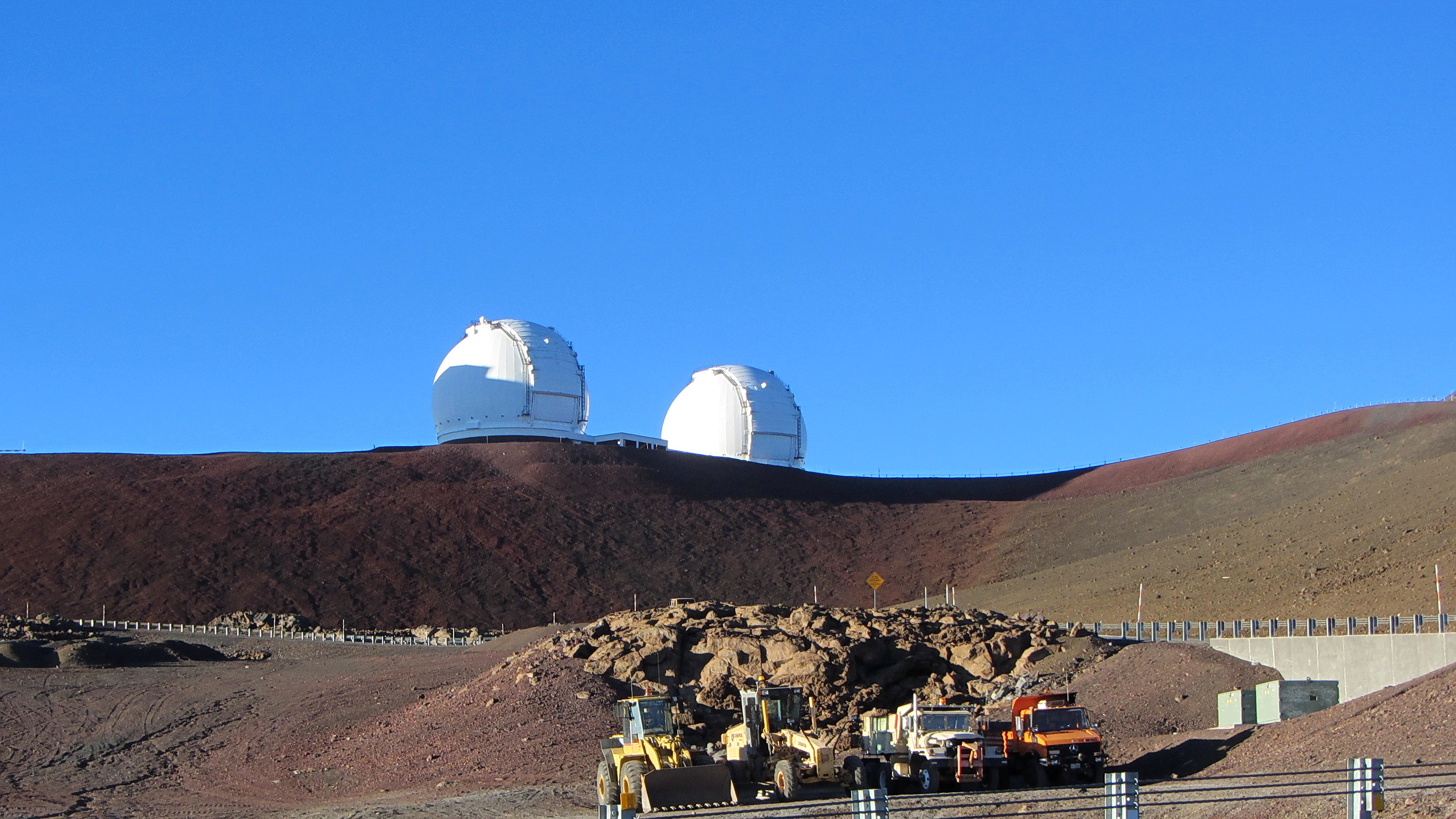 W. M. Keck Observatory. Mauna Kea Summit, Big Island, Hawaii, United States